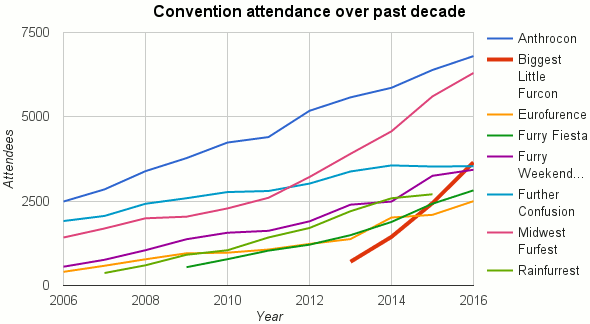 Convention Attendance chart